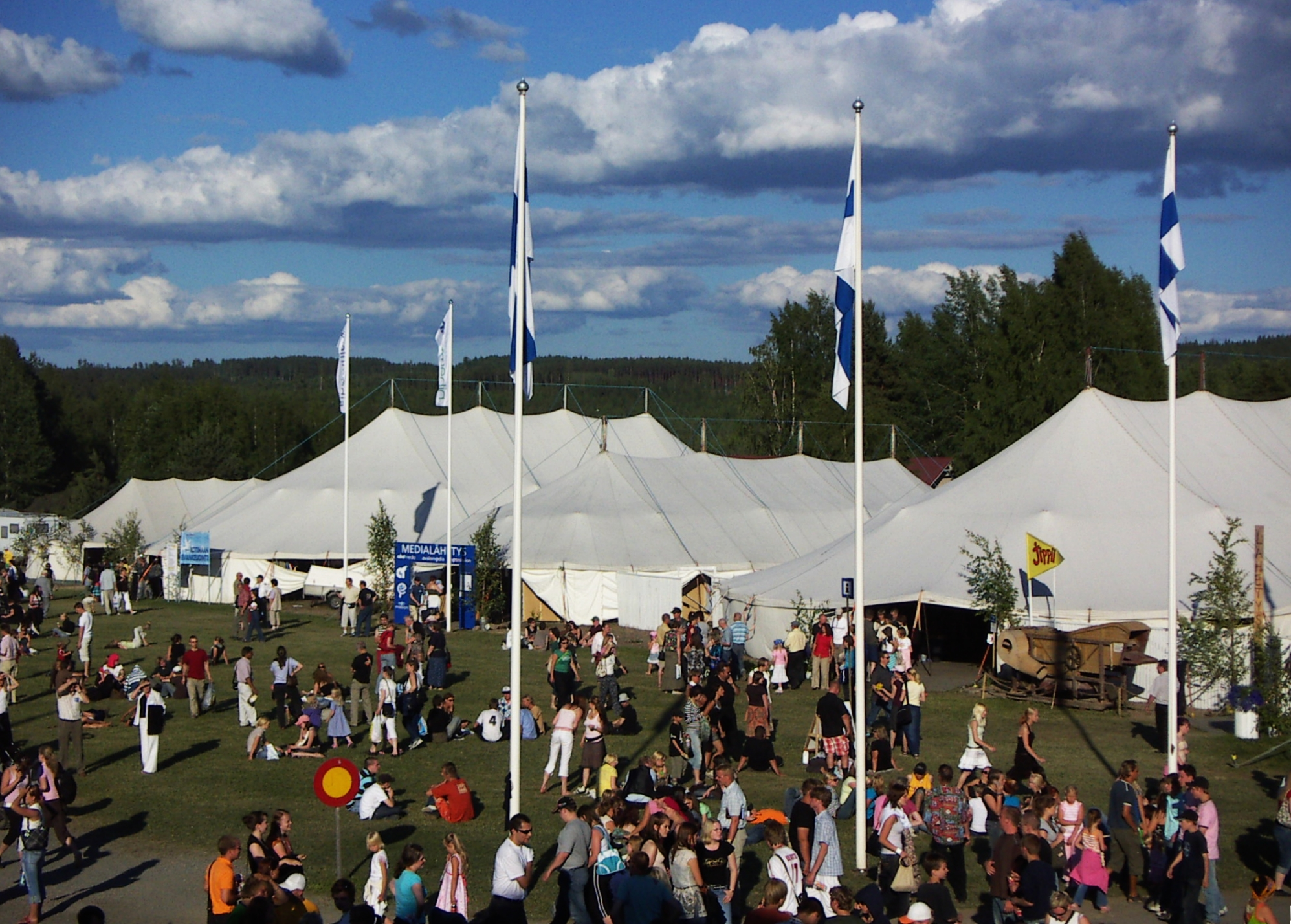 Photo of missionary tents in the Summer Conference in Keuruu. The photo is taken by myself.